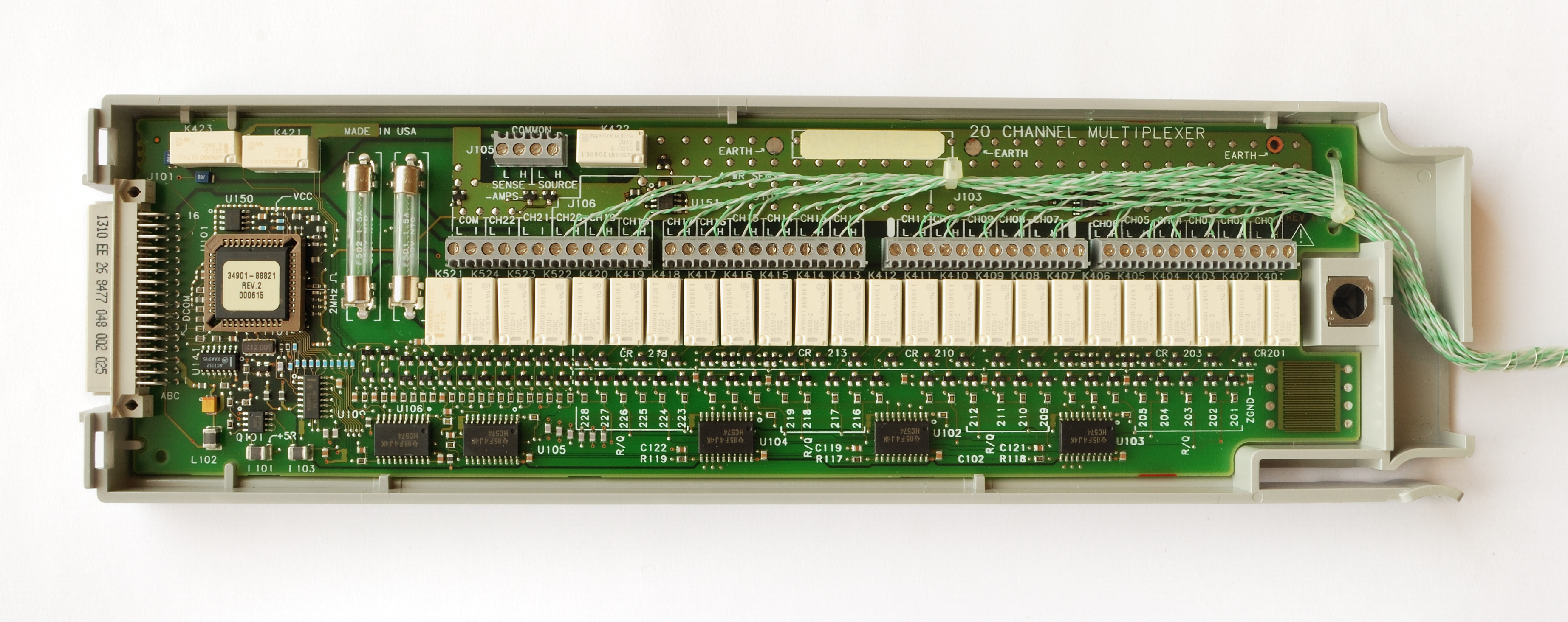 20-channel multiplexer Agilent 34901A with 20 K-type thermocouples. Plug-in module for the data acquisition system Agilent 34970A. See also Data Acquisition Agilent (1)